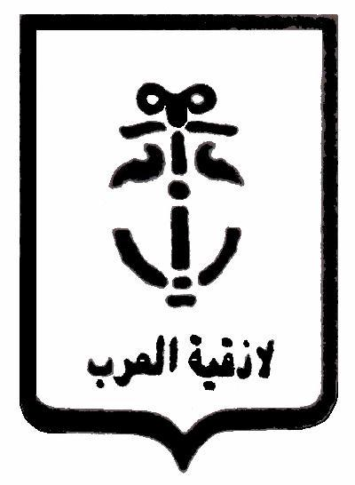 Seal of Latakia City, Syria. 1975.